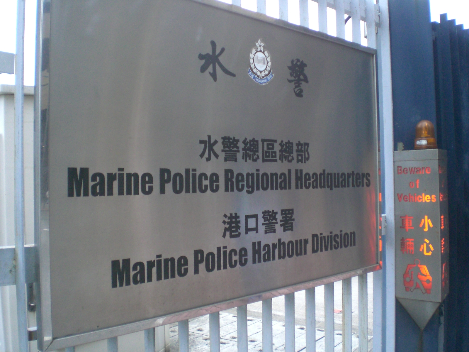 香港東區 太康街